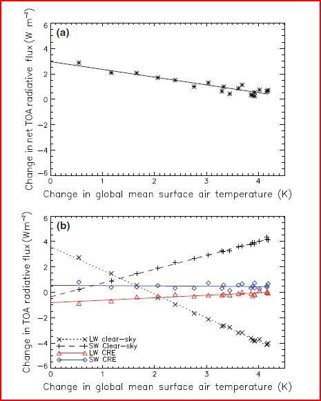 a Change in global annual mean net TOA radiative flux as a function of global annual mean surface air temperature change during the first 20-years after CO2 was instantaneously doubled. (b) as (a) but showing its breakdown into radiative flux components: LW clear-sky, SW clear-sky, LW cloud radiative effect and SW cloud radiative effect. All fluxes are defined as positive downwards. The slope and intercept of these curves provide a simple way of separating feedback (in units of Wm-2 K-1) and forcing (in units of Wm-2), respectively